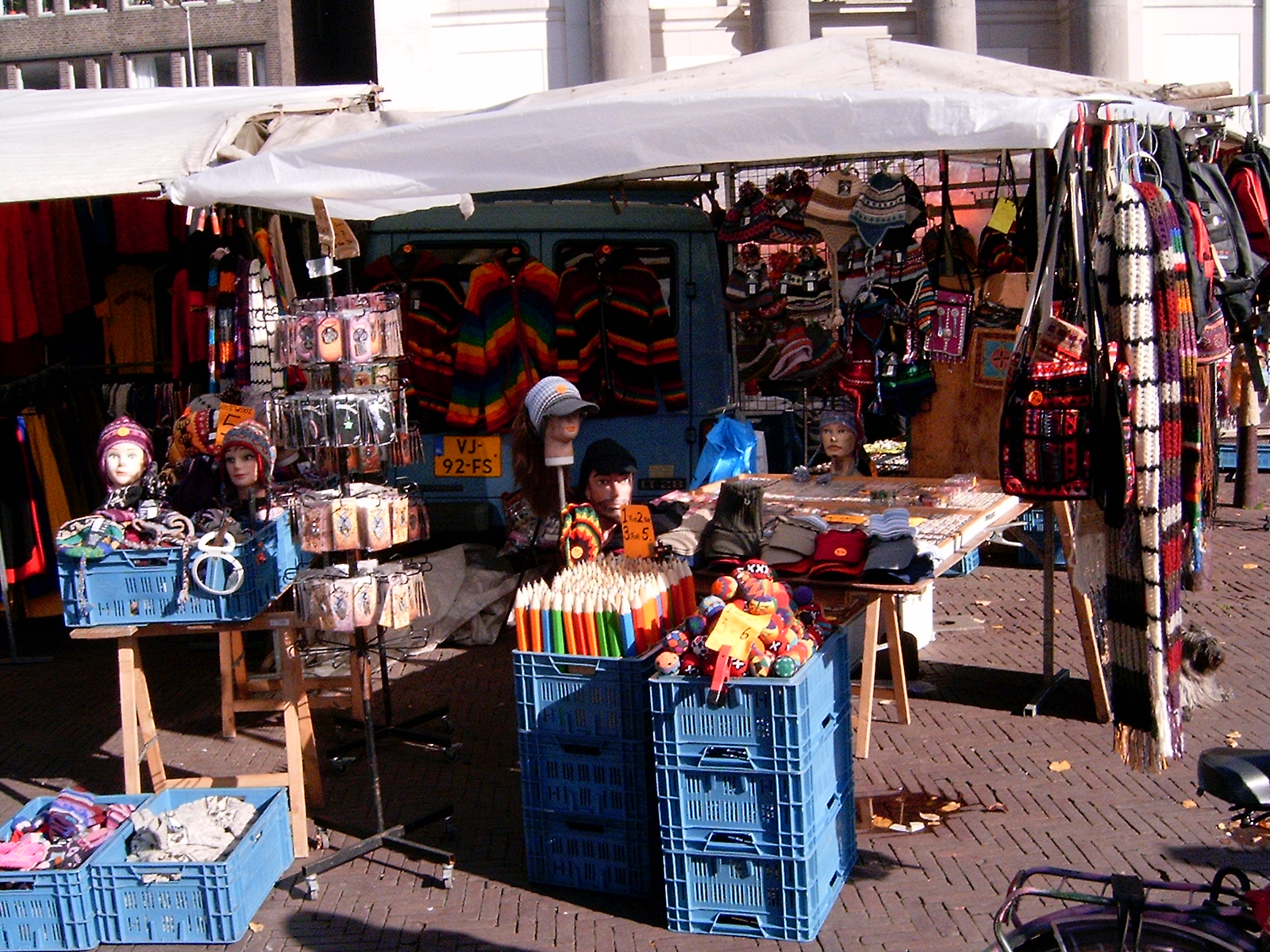 Waterlooplein in Amsterdam